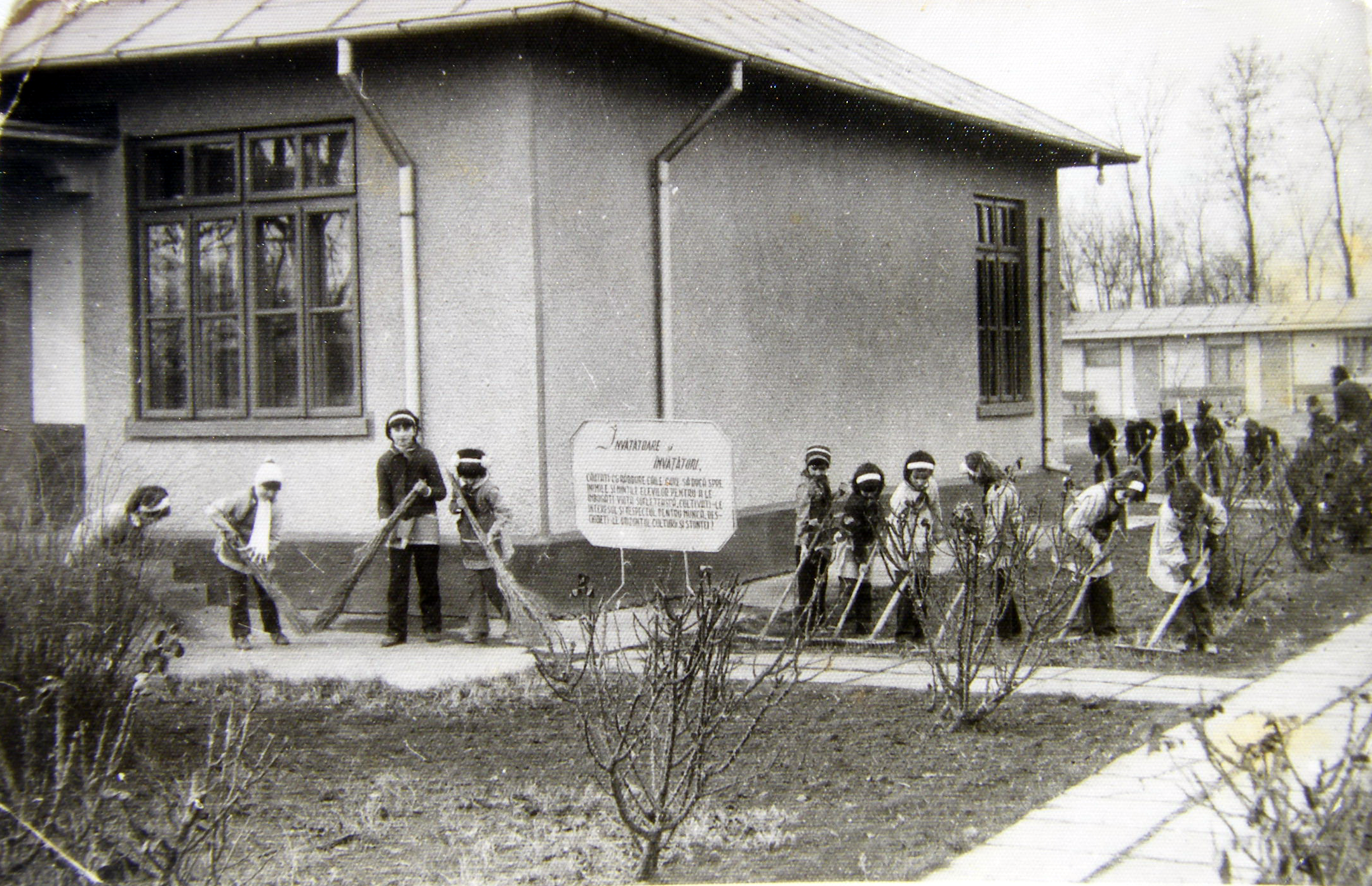 Children working in the school garden at the Public School no. 2 from Bordei Verde commune, Brăila County, România, 1983.